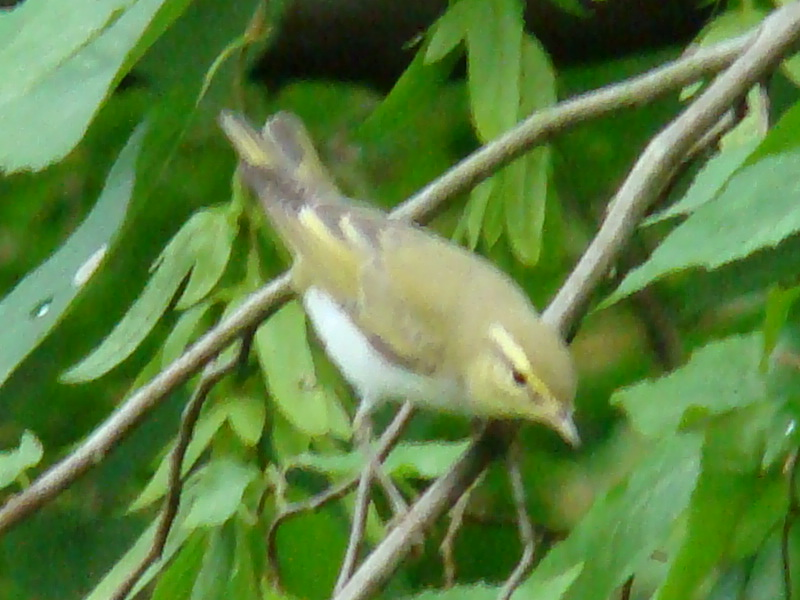 Photo of the Wood Warbler (Phylloscopus sibilatrix) in Palanga, Lithuania.